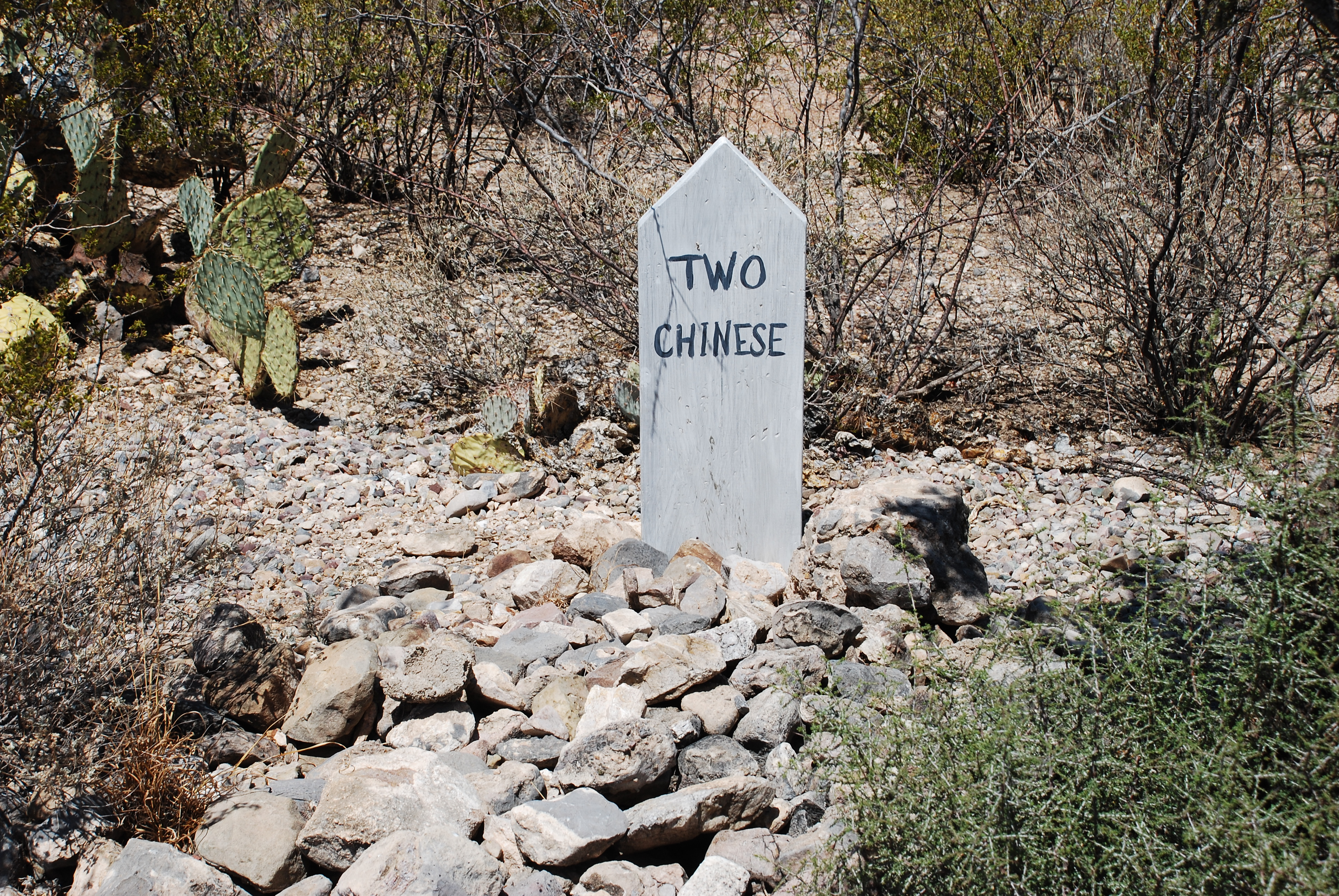 Gravemarker from Boot Hill Graveyard, Tombstone, Arizona